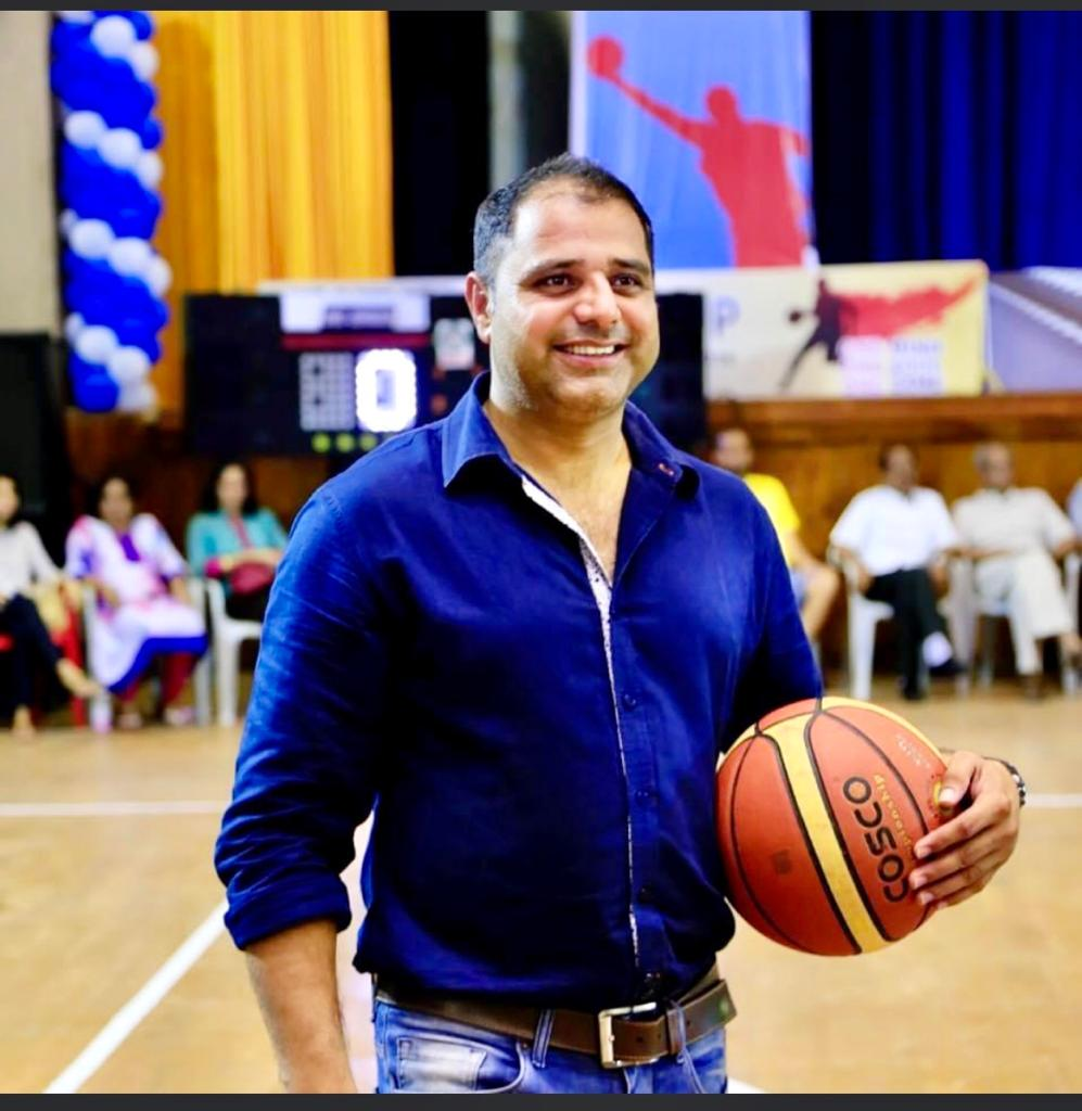 Arise steel tournament champions in chennai